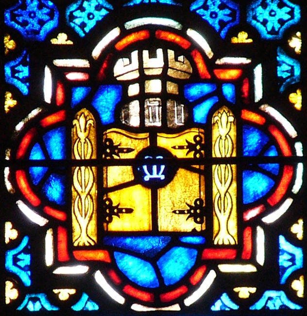 photograph of stained glass window in St. Ignatius Church, Chestnut Hill, Massachusetts by John Workman